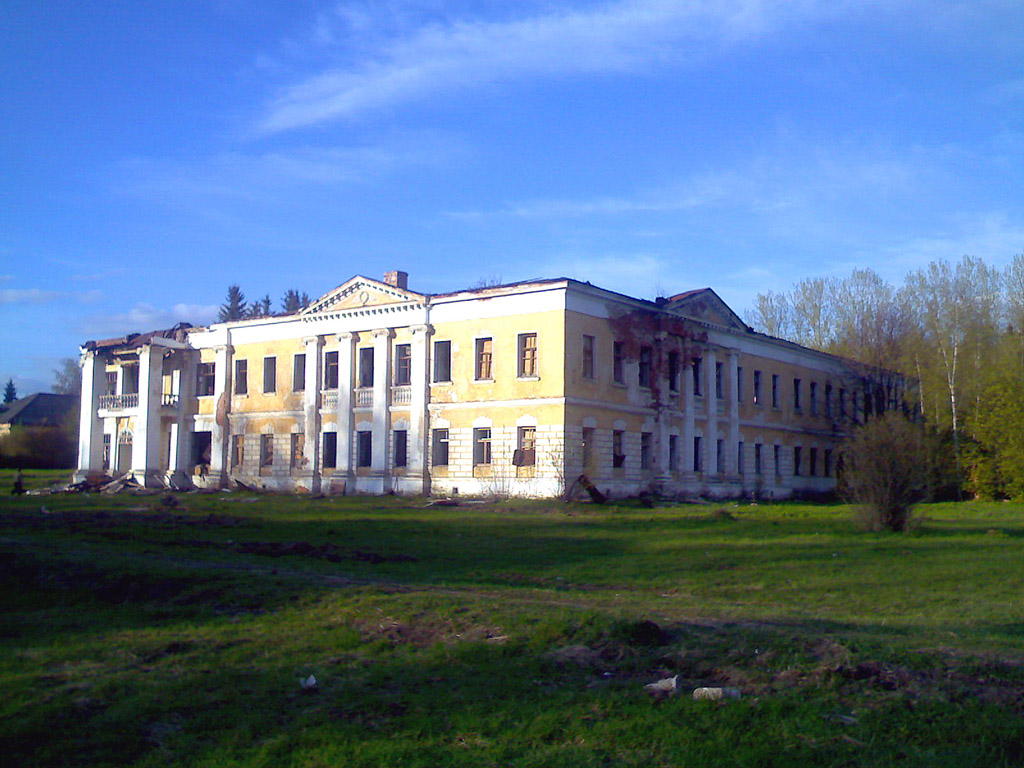 Grebnevo Estate